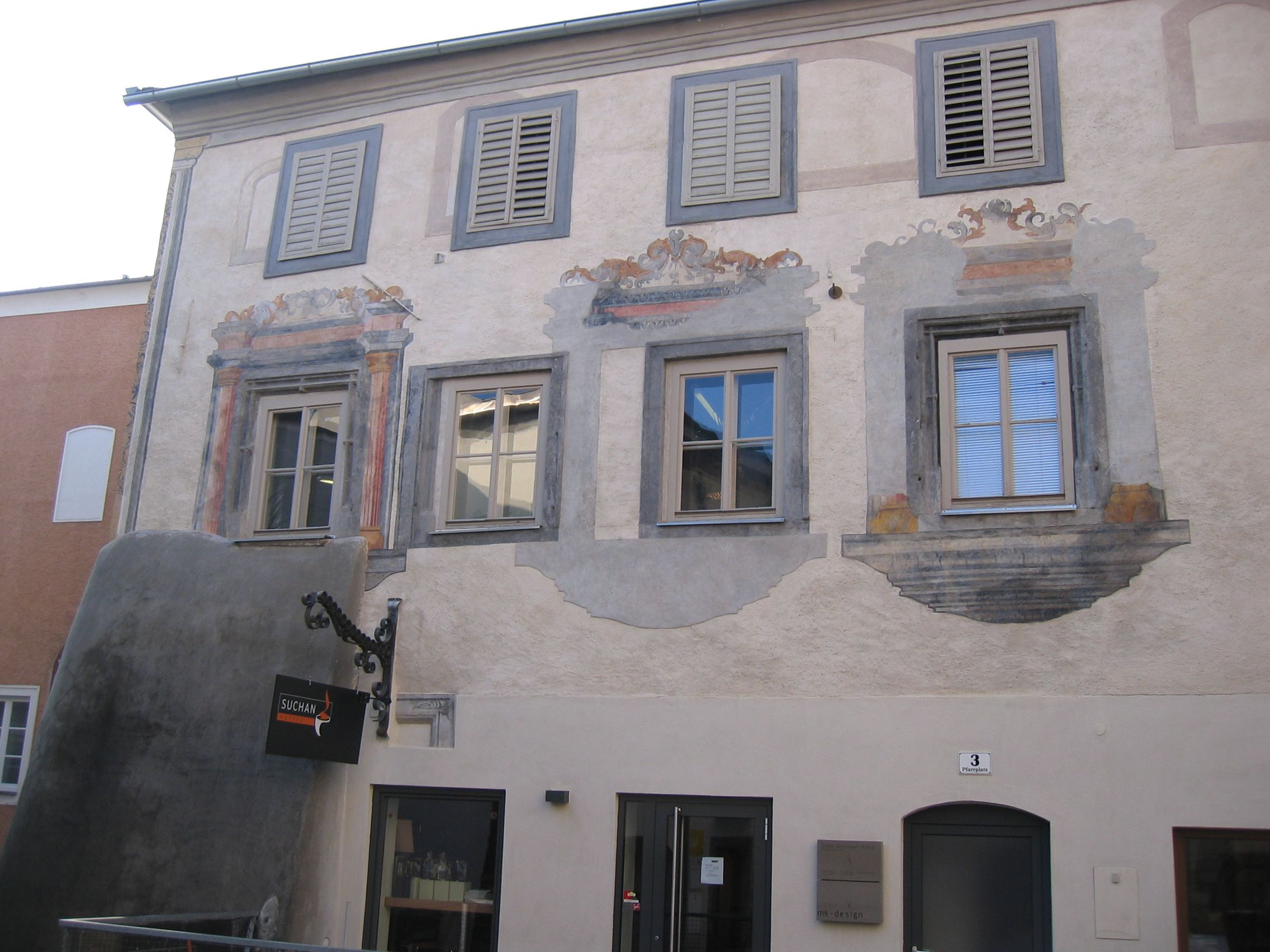 Pfarrplatz in Freistadt